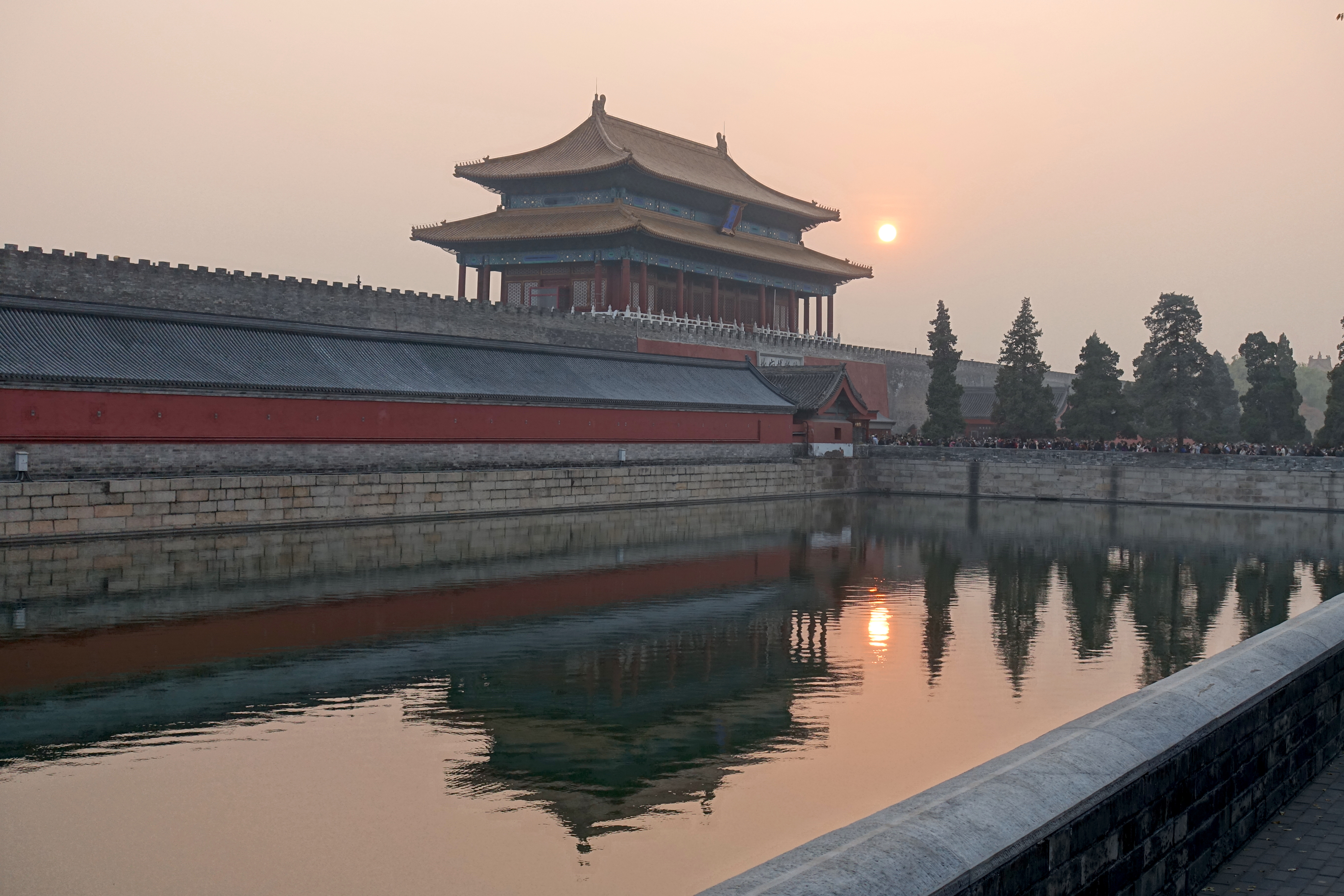 Gate of Divine Might in the Forbidden City in November 2018. The view includes the moat and the outer walls.